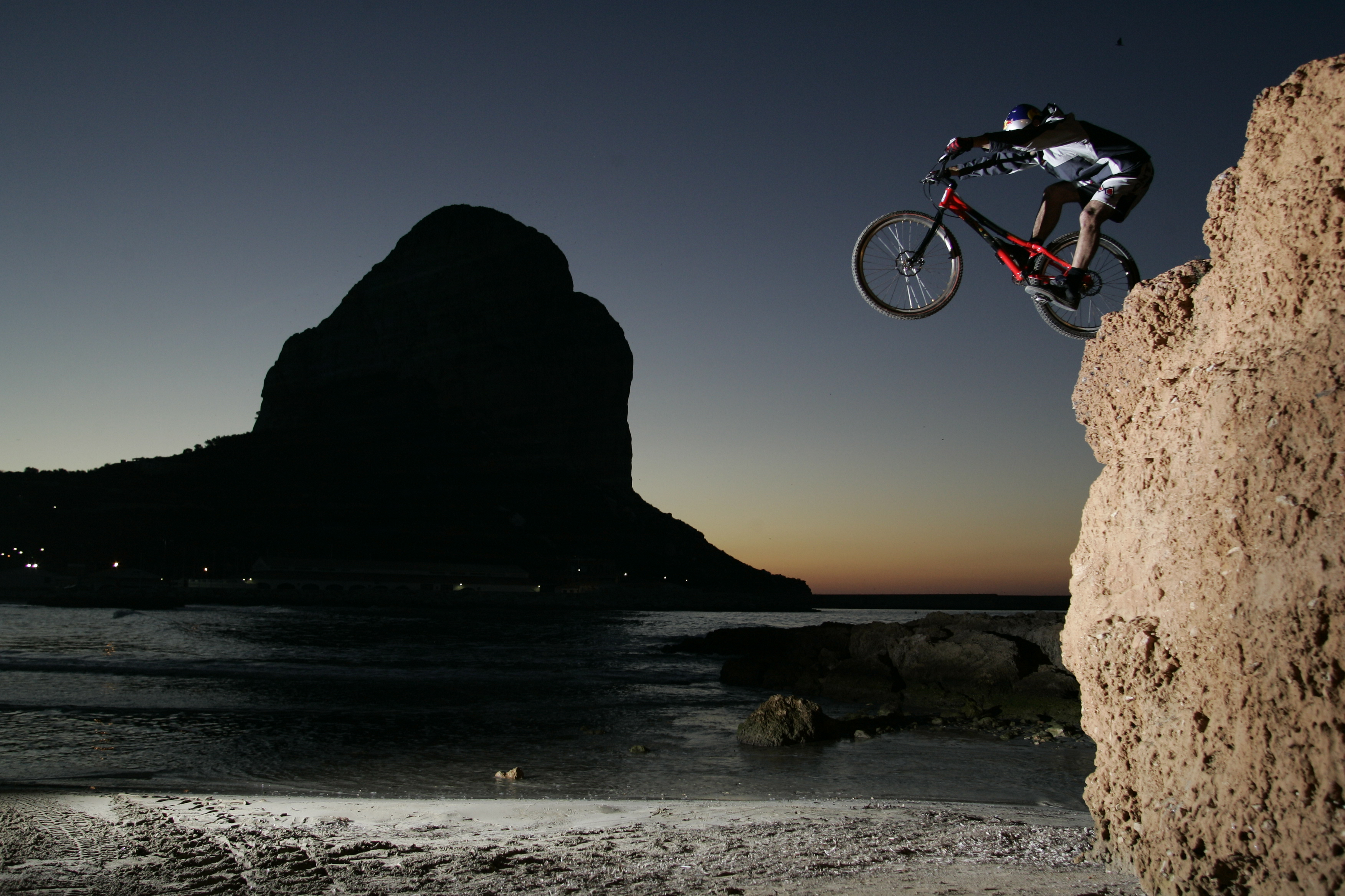 Calpe by night